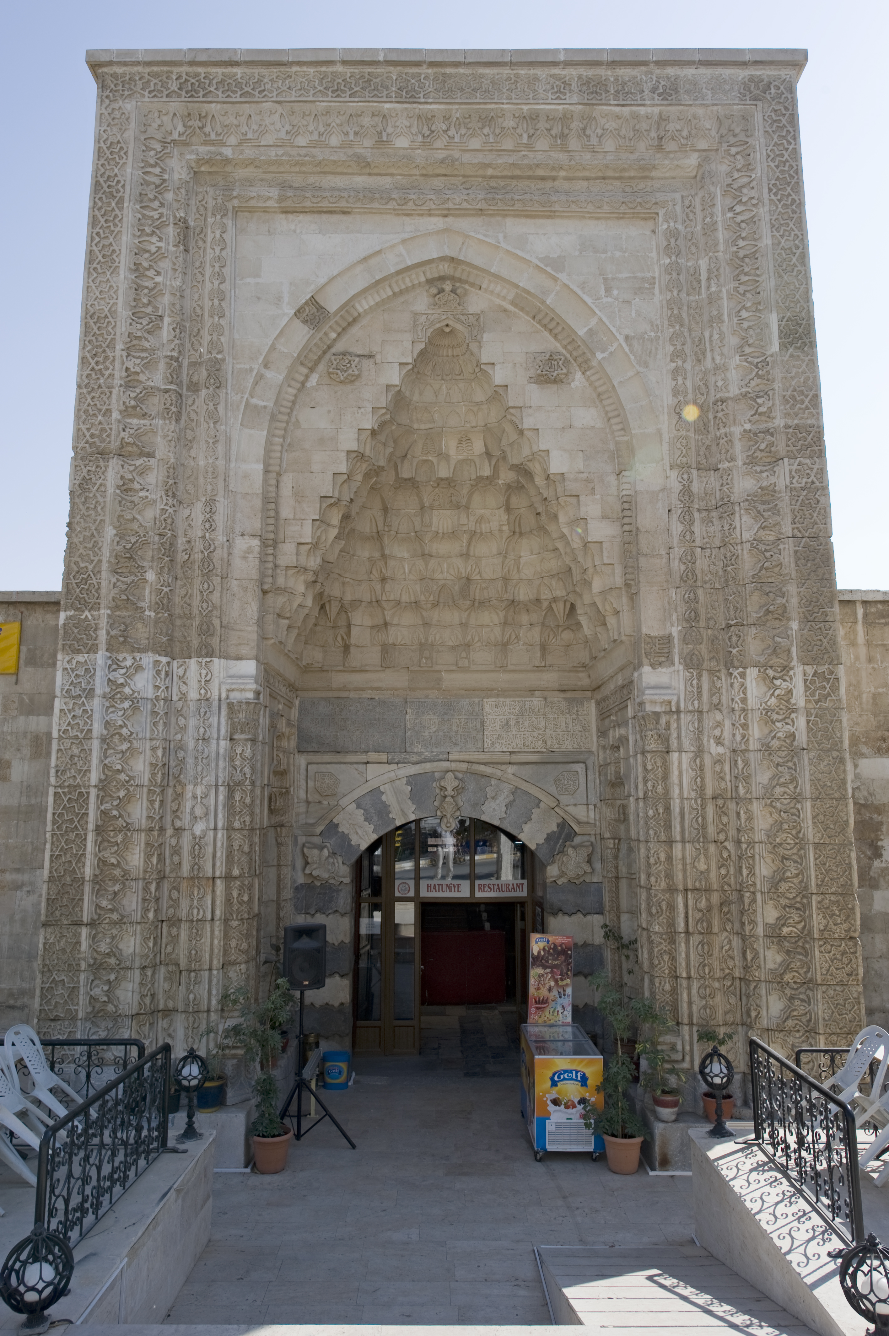 The Medrese of Nefesi Sultan, also called the Hatuniye medrese. It was built in 1382 by the famous architect Hoca Ahmet, who built this on orders of the daughter of the Ottoman sultan Murat I, the wife of the Karamanoğlu Alaeddin Bey. The portal in front has been higher, inside there now is a restaurant, but I was allowed to take every picture I wanted. Friendly people there. The monumental ‘Taşkapı’ (stone gatehouse) of the medrese takes up 60% of the facade. It is one of the finest examples of Karaman decorative stone carving, executed in late-Seljuk style. Above the door, and under the muqarnas vaultings, the building inscription gives the date and the initiator of the building.